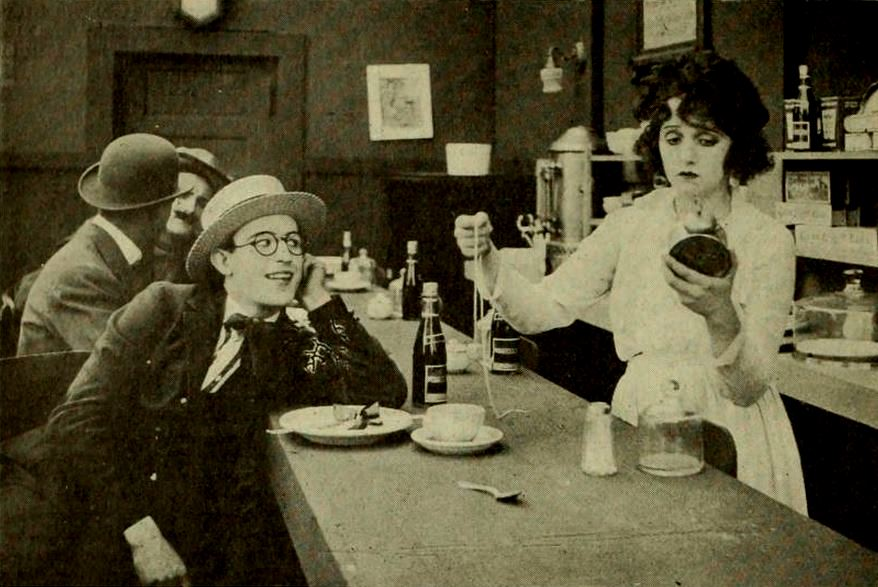 Still from the American comedy short film Before Breakfast (1919) with Harold Lloyd and Bebe Daniels, on page 1226 of the May 24, 1919 Moving Picture World.